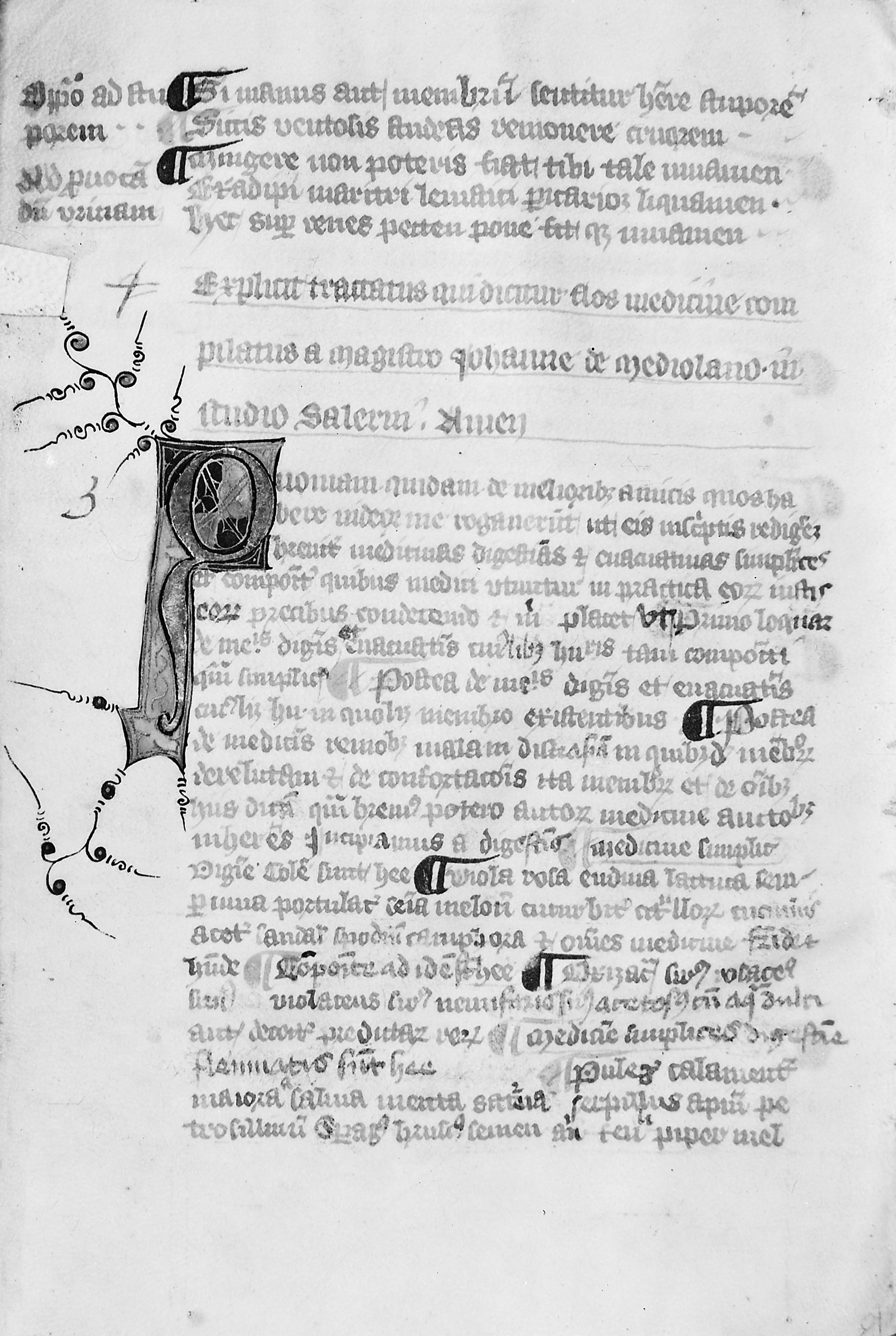 Manuscript relating to the Salerno Medical School. Wellcome Images Keywords: salerno medical school